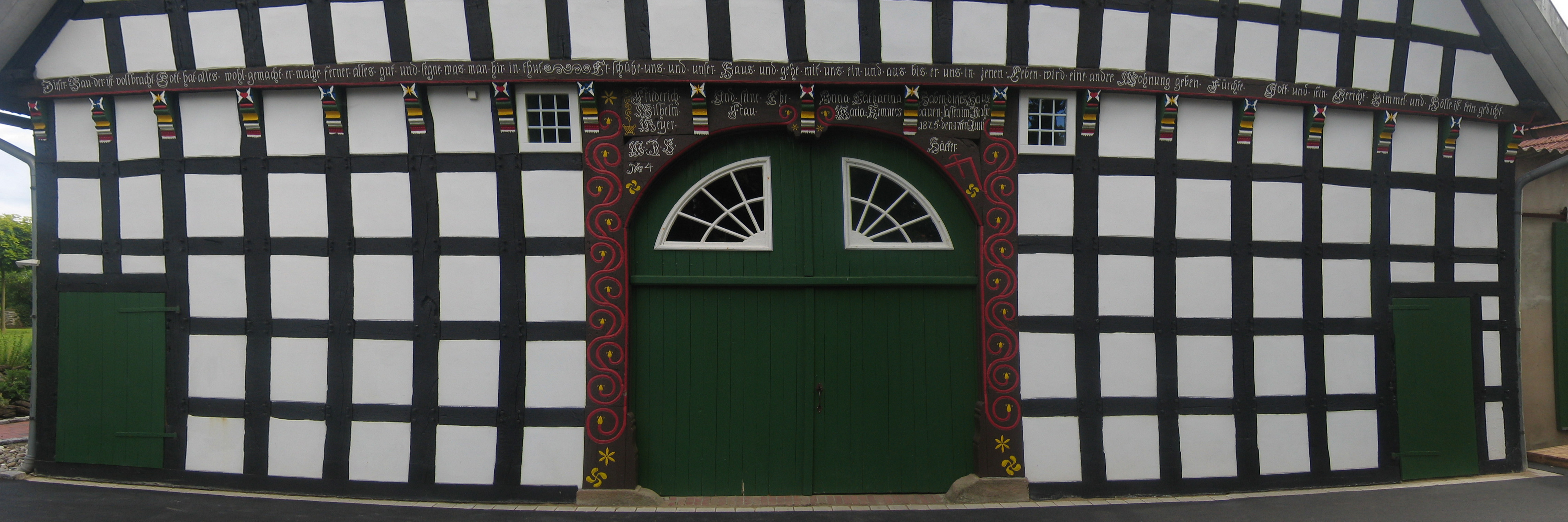 Timber framing in Rödinghausen, District of Herford, North Rhine-Westphalia, Germany.